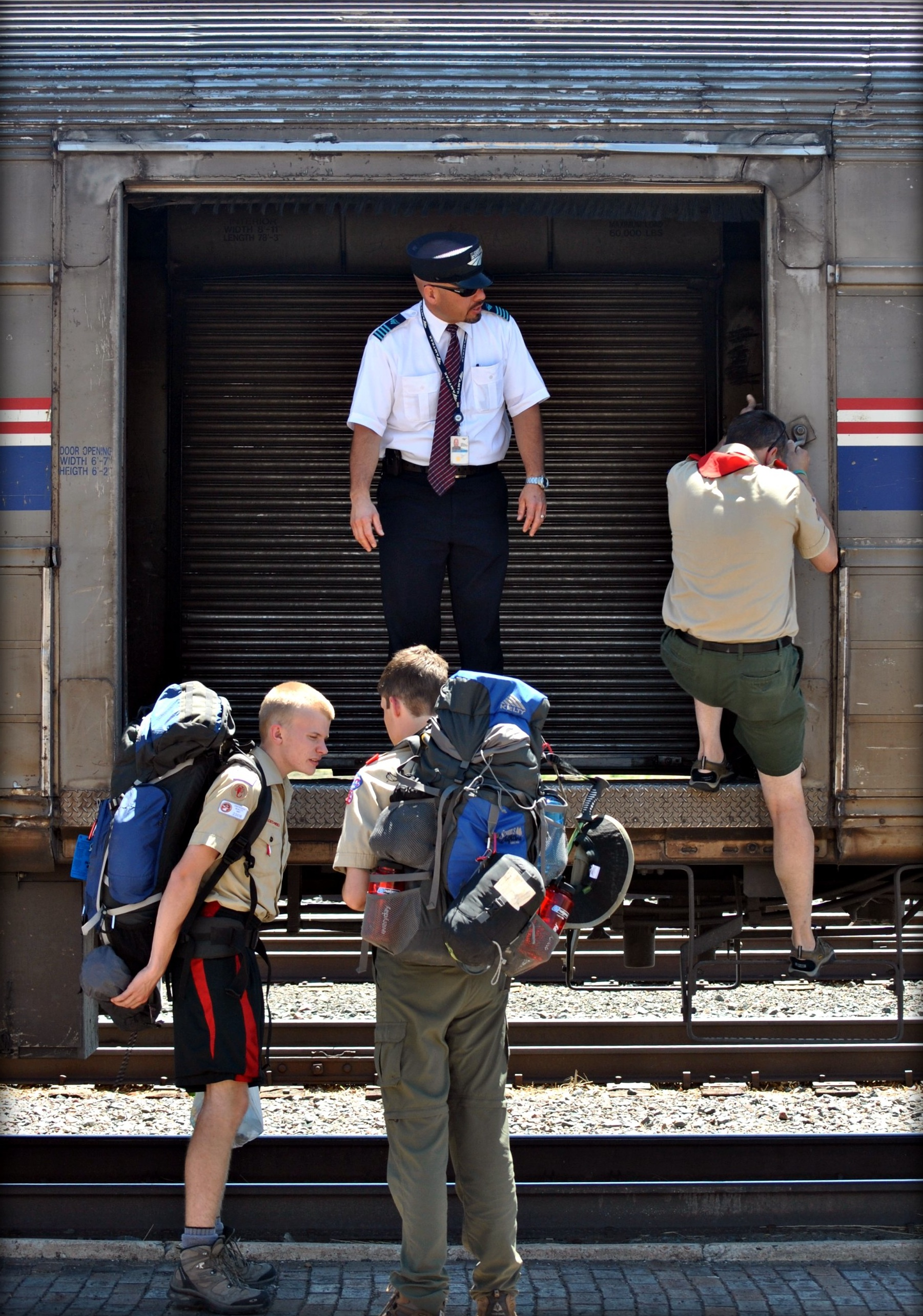 Scouts with the Boy Scouts of America heading to Philmont Scout Ranch unload their equipment from the baggage car of the Southwest Chief at Raton, New Mexico.